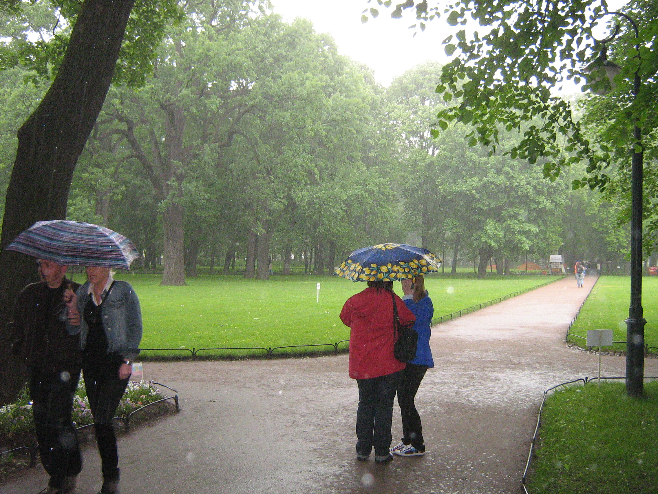 Saint Petersburg (Russia), Mikhailovsky Garden